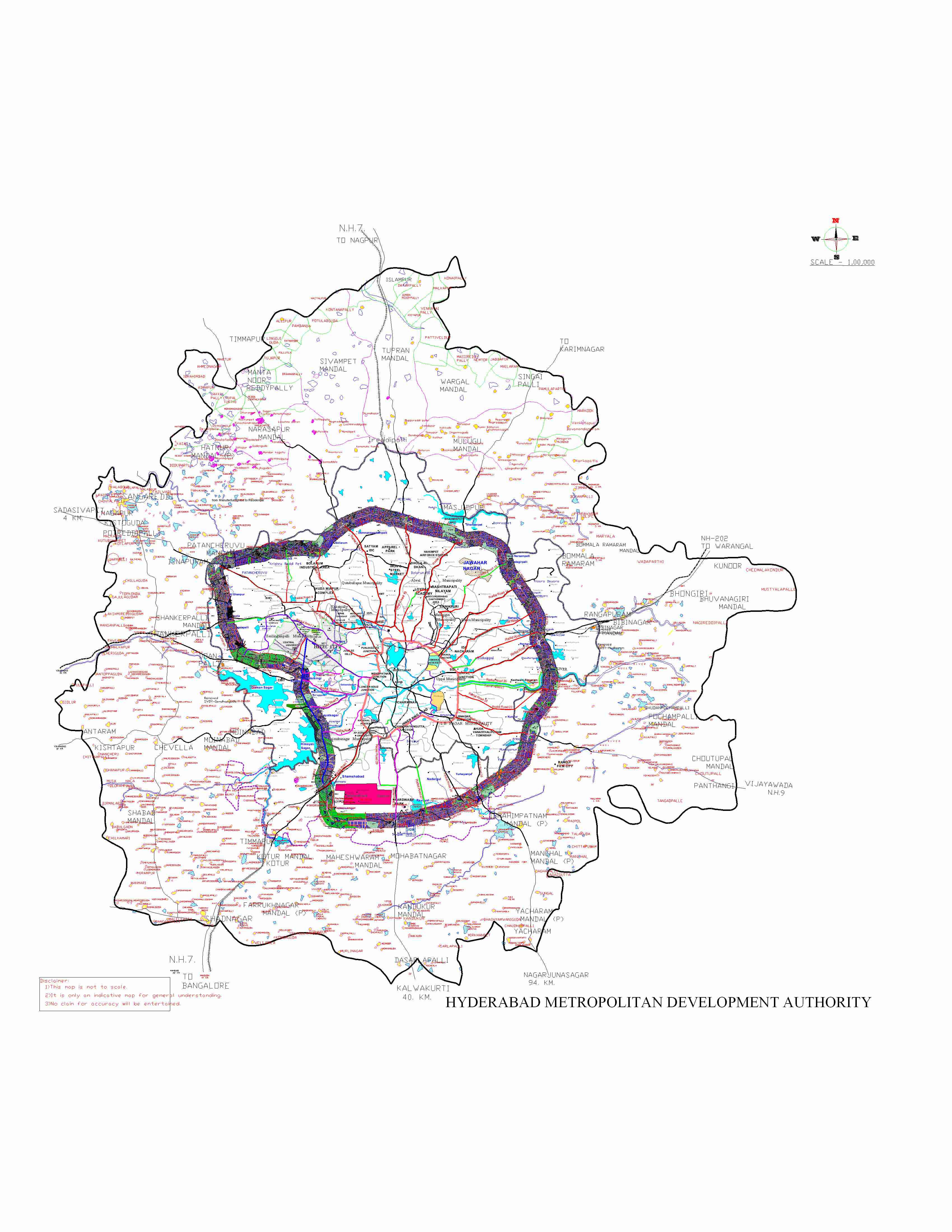 HMDA Jurisdiction map